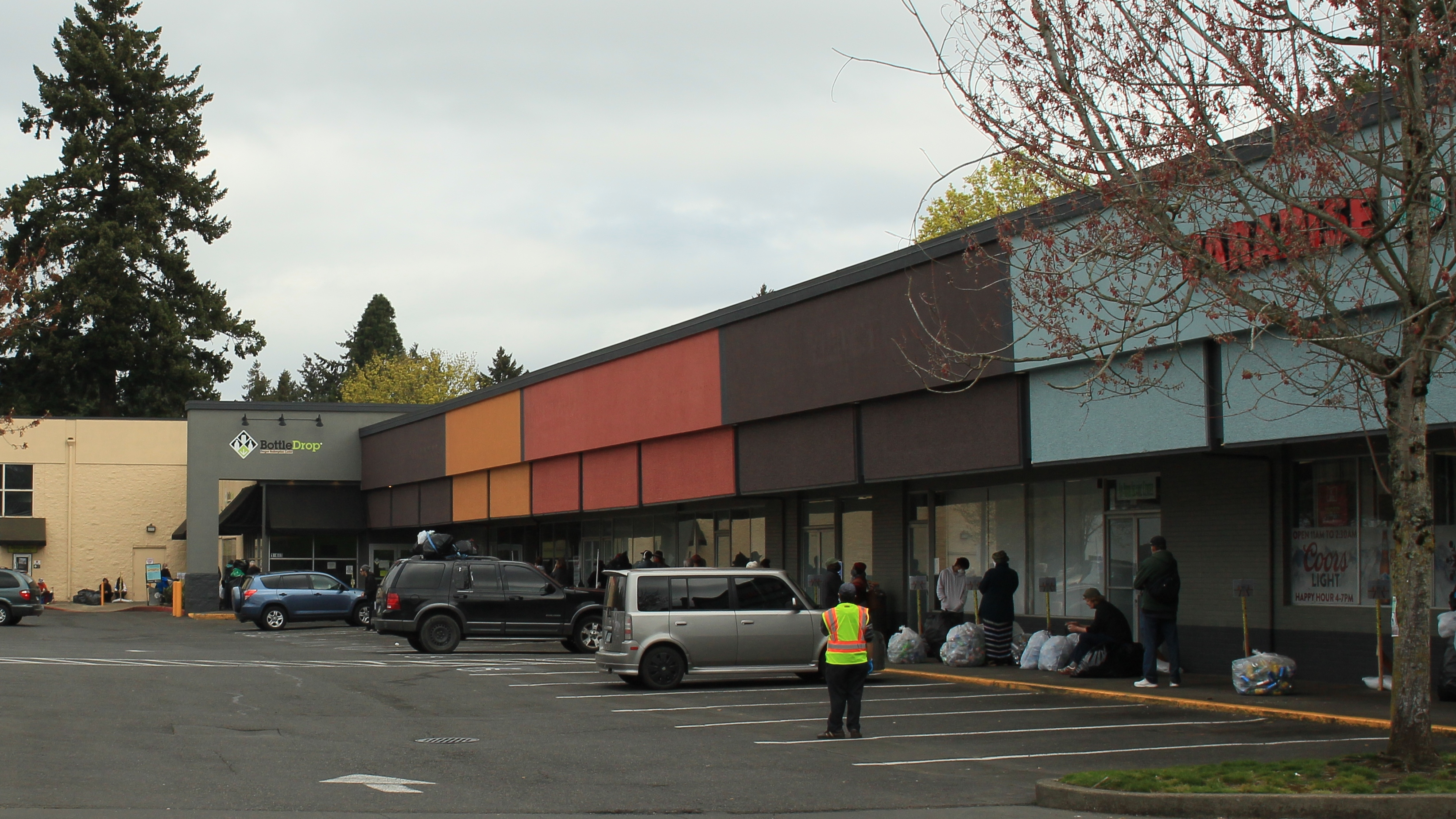 Exterior view of BottleDrop Beverage Container Redemption Center in April 2020